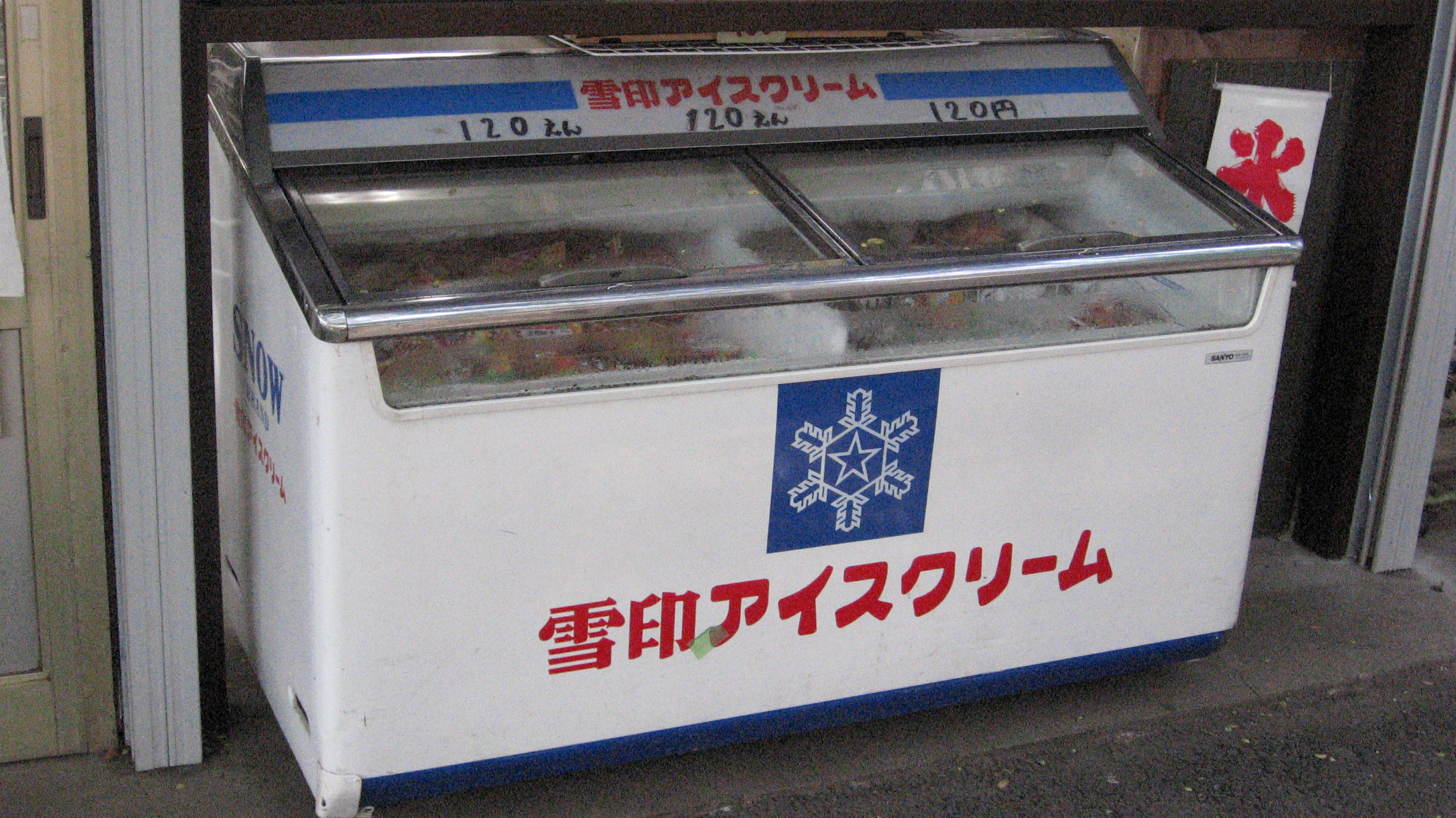 Snow Brand Ice cream case (Inokashira park. 2008)